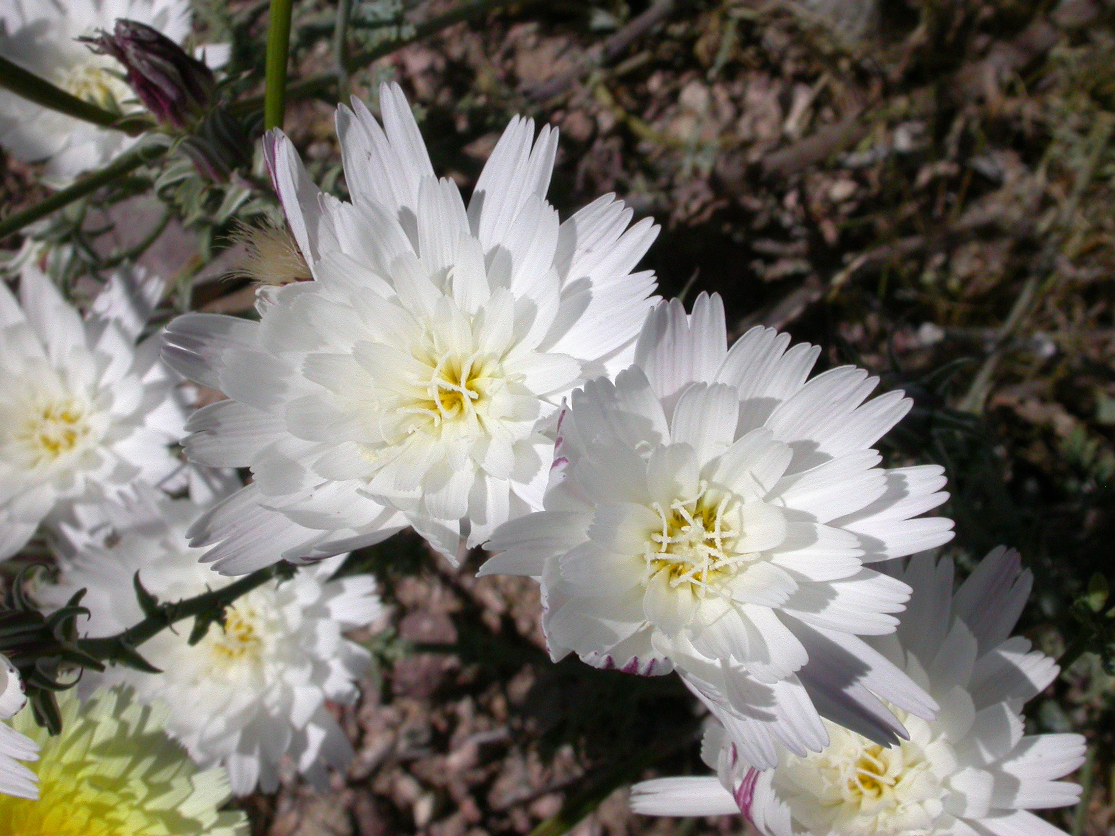 Near Amboy, CA